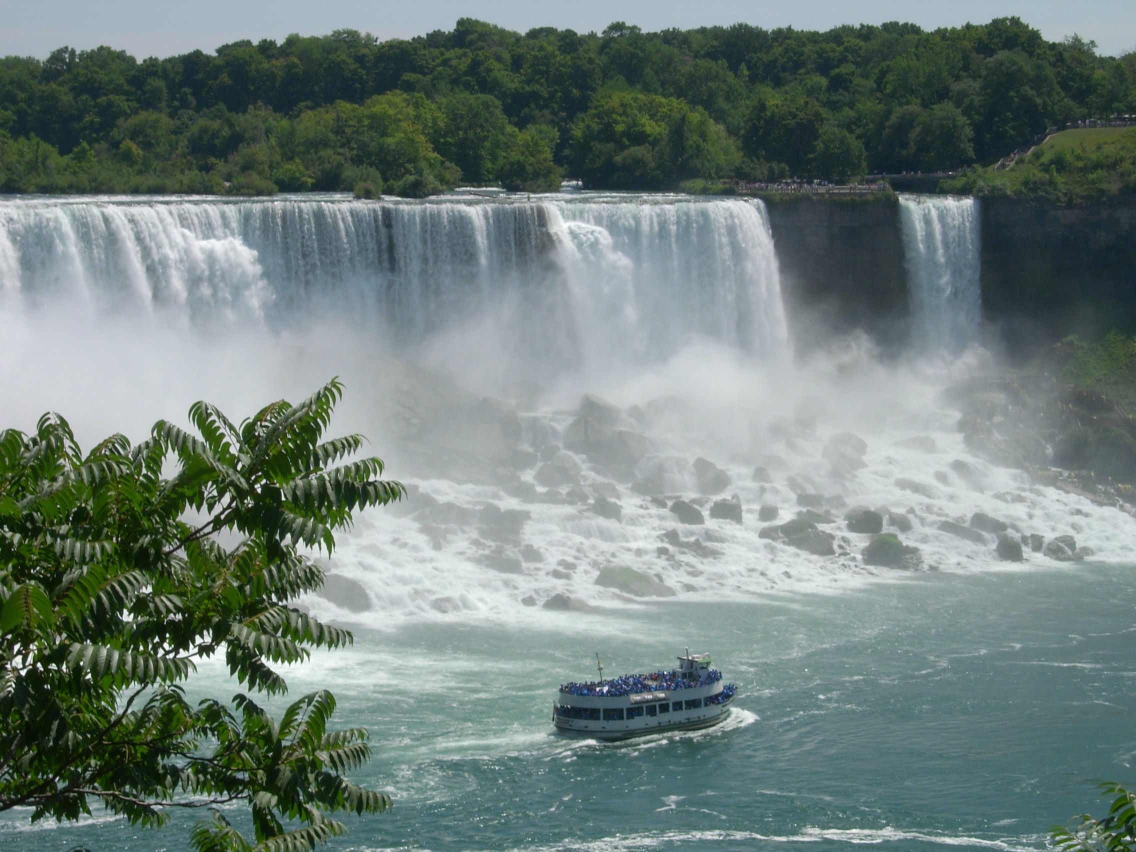 The American Falls, The Bridal Veil Falls, and the Maid of the Mist boat at Niagara Falls